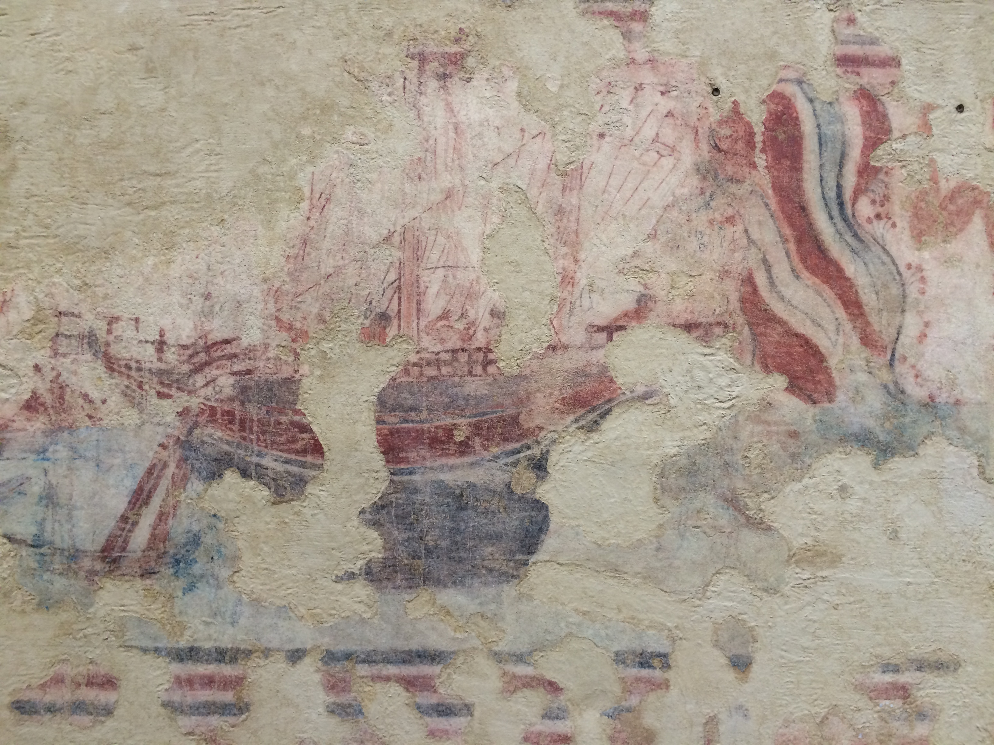 Tomb of the Ship, Tarquinia (detail)